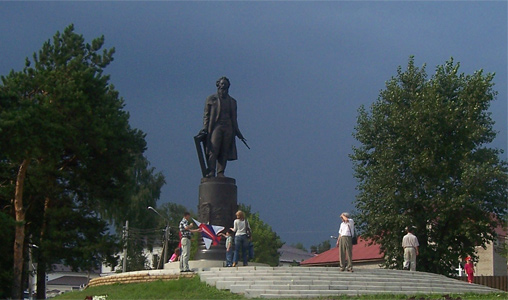 The city of Elabuga, I.I.Shishkin's monument, to the great Russian artist